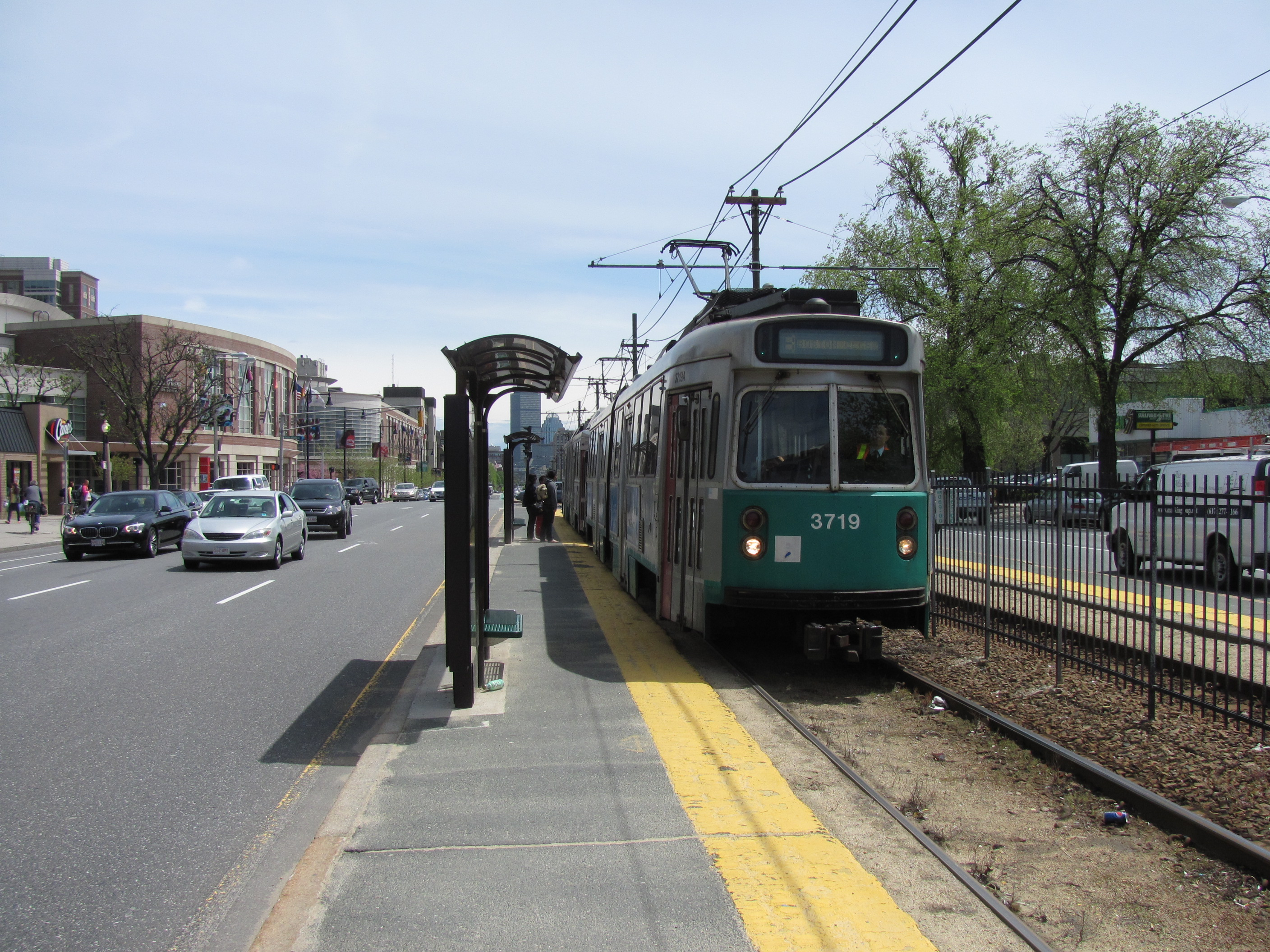 Looking east at Pleasant Street MBTA station on the Green Line B Branch, Boston Massachusetts